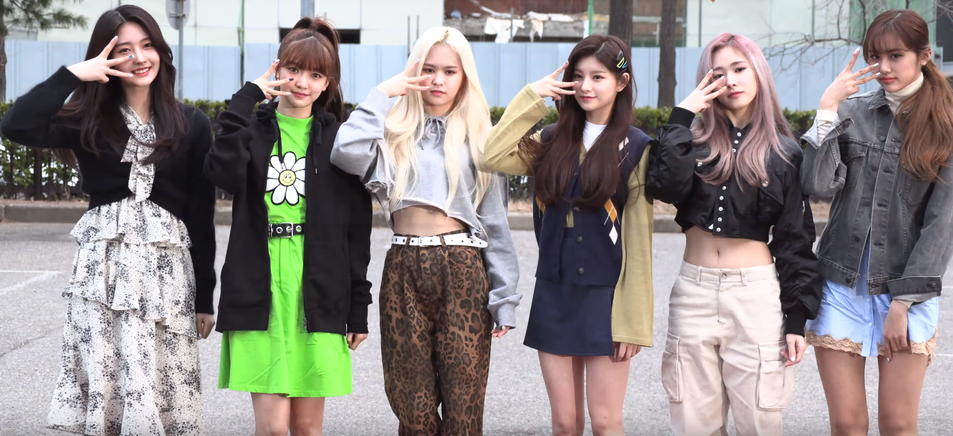 EVERGLOW (에버글로우) E:U 시현 MIA ONDA AISHA 이런 29일 KBS 뮤직뱅크에 에버글로우가 출근하고 있다